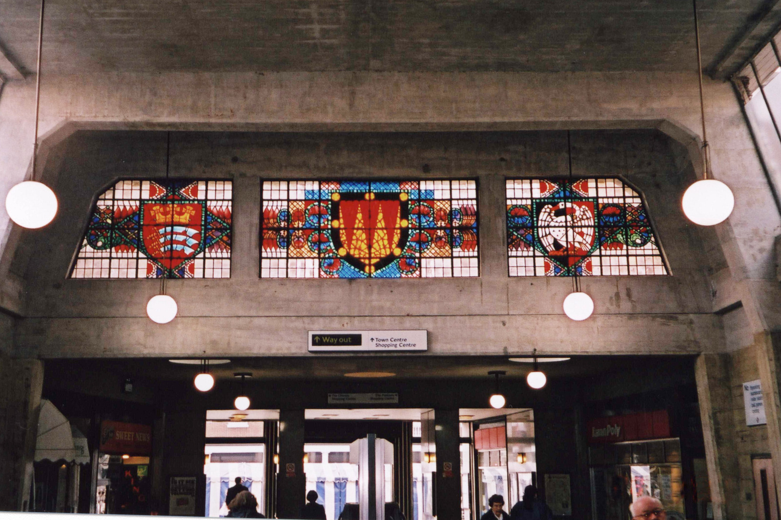 Exit from Uxbridge Underground Station, High Street, Uxbridge. The station in its present form was opened in 1938 to an art deco design by Charles Holden. The front of the station can be seen here 1779400 The stained glass panels are not usually seen other than in places of worship and add colour to the otherwise rather dour reinforced concrete structure. From wiki: "The stained glass panels at the booking hall end of the platforms reflect the area's heraldic associations. The crown and three seaxes on a red background are the arms of Middlesex County Council and the chained swan on a black and red background is associated with Buckinghamshire. The centre shield is possibly the arms of the local Basset family; a downward pointing red triangle on a gold background was borrowed from the Bassett arms for use on the arms of Uxbridge Urban District Council in 1948."